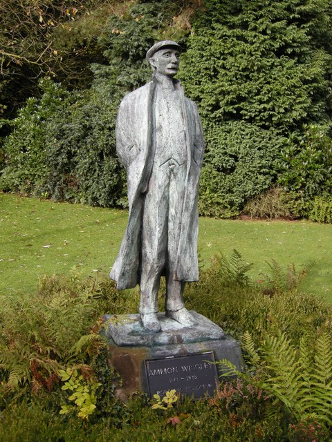 Ammon Wrigley statue This statue commemorates Ammon Wrigley (1861-1946)who was a famous Saddleworth dialect poet. He lived and died "on the cold grey hills of Saddleworth". The statue was unveiiled in 1991 at the time of the Saddleworth Festival of Arts.